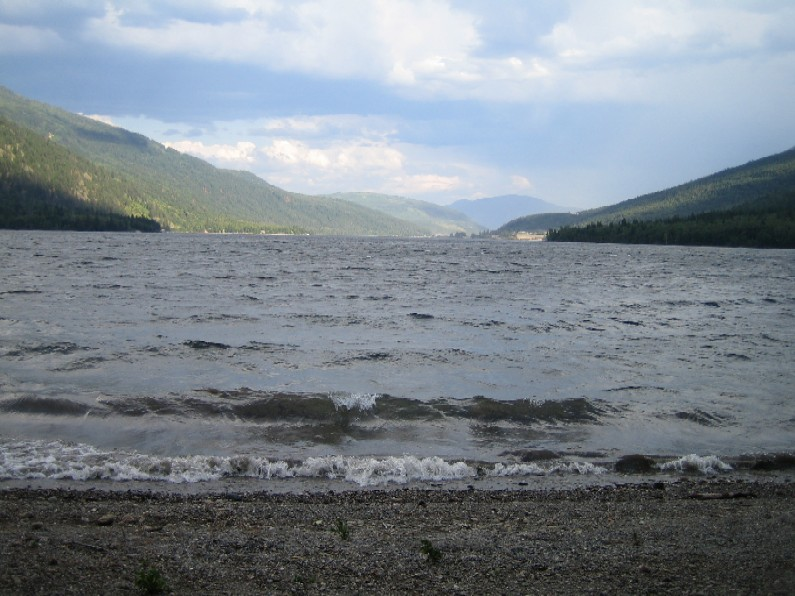 Southern view from Adams Lake Provincial Park with saw mill in distance (center frame).